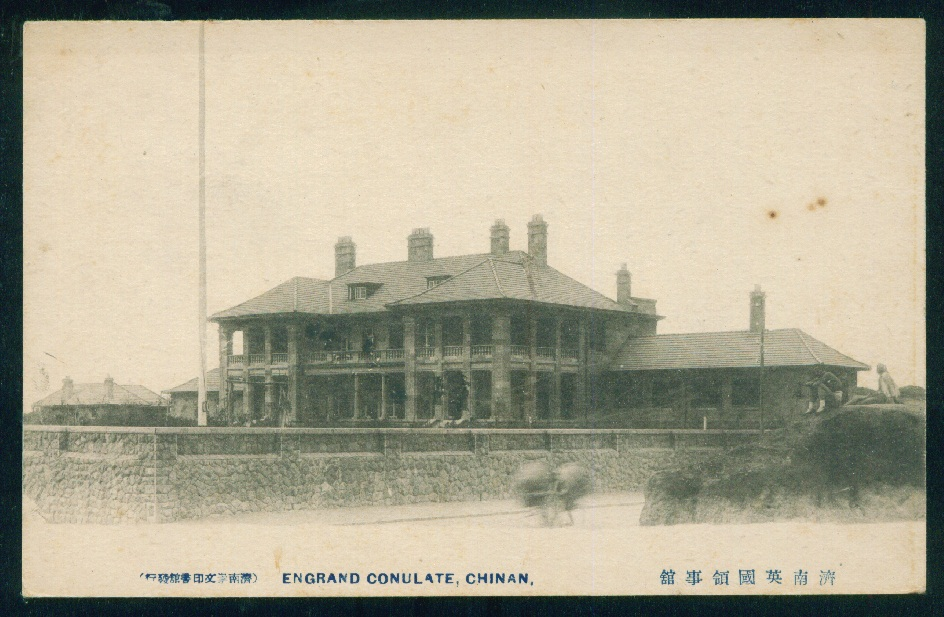 British Consulate, Jinan, China